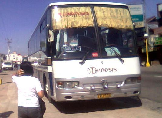 Nissan Diesel Philippines bus. Bus No: 81862 Year released: 2002 Capacity: 49 Route: Mariveles-Baguio Body: Santarosa Philippines Engine: Nissan Diesel PE6 Fare: Airconditioned Aircon System: Denso sub-engine ac Location: Villasis Bagsakan Market, Brgy. Poblacion, Villasis, Pangasinan Additional Info: GM-Allison automatic transmission equipped...